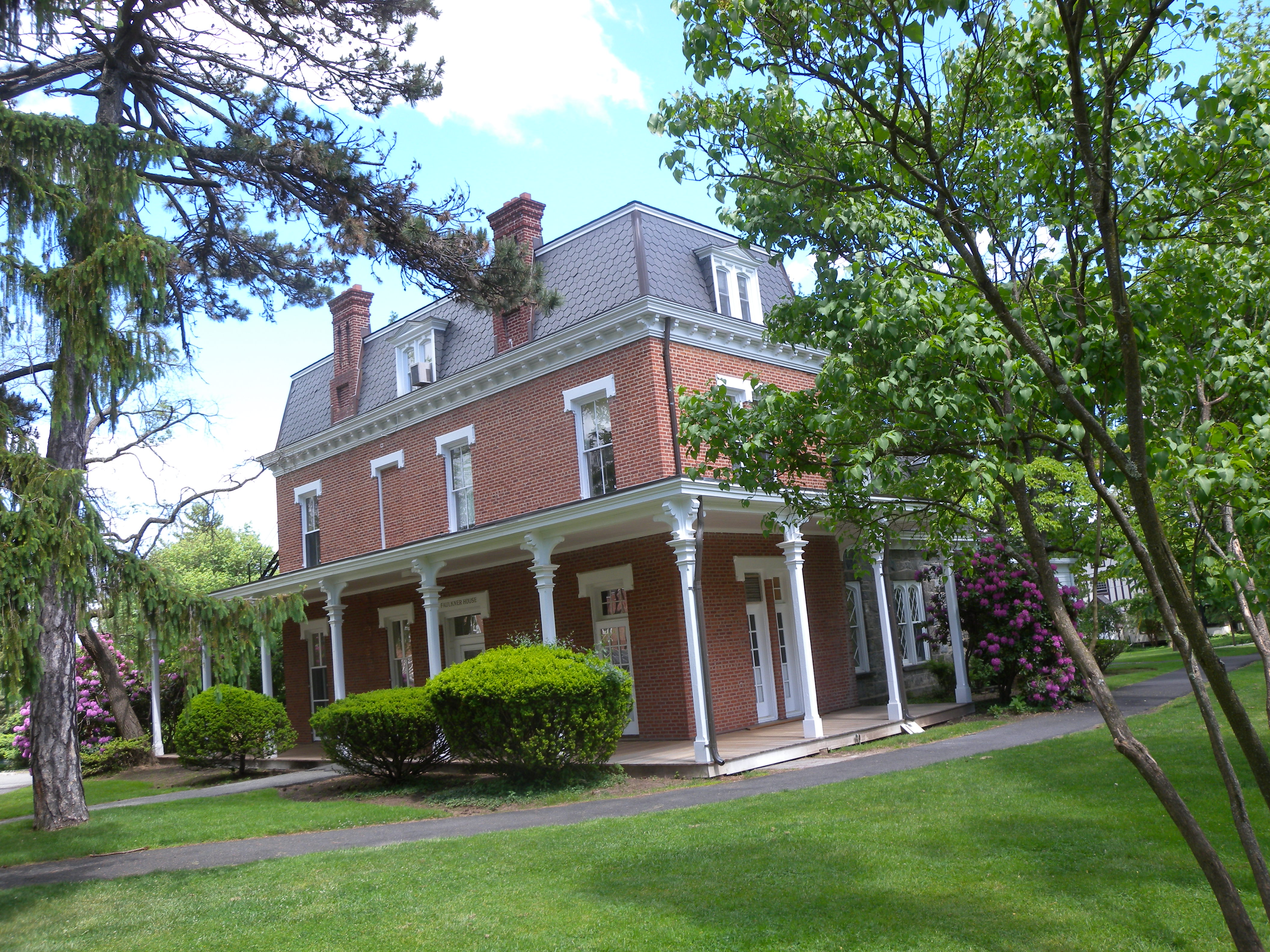 Looking east at English dept on a mostly sunny early afternoon.